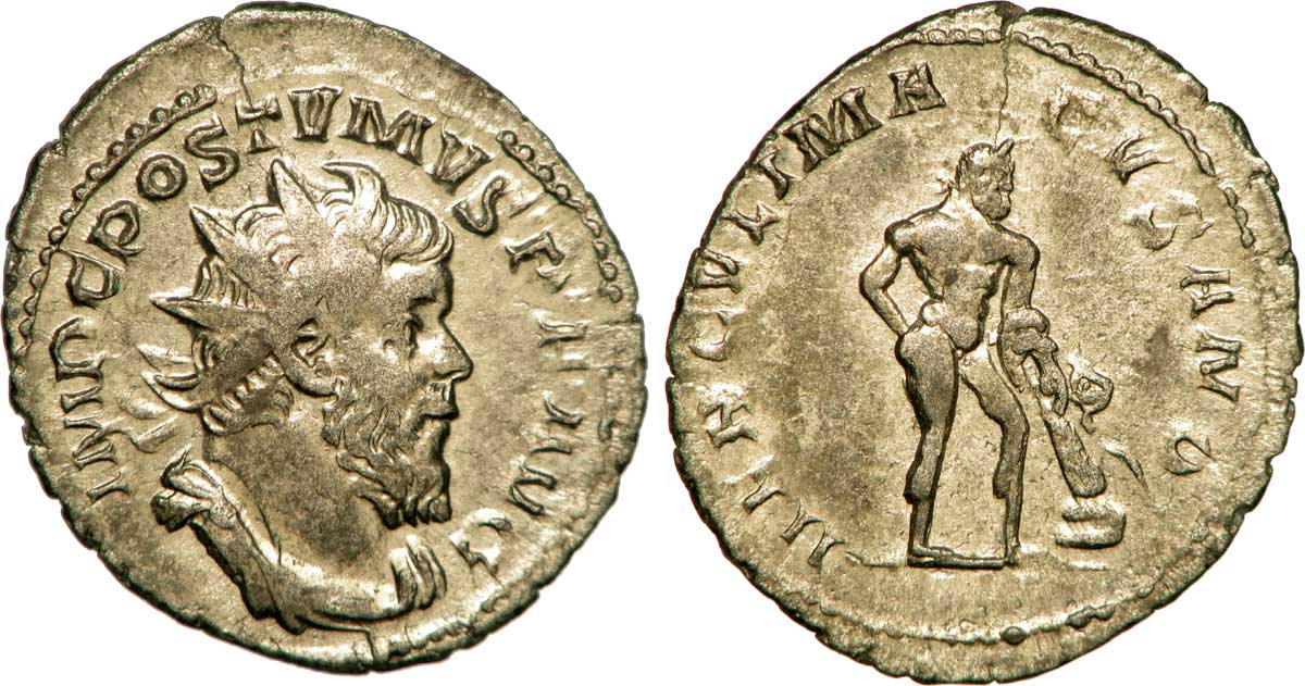 Antoninien à l'effigie de Postume Date : 261 Description revers : Hercule nu debout à droite, la main droite appuyée sur la hanche, tenant de la main gauche la massue et la léonté enroulée autour ; la massue est posée sur un rocher .